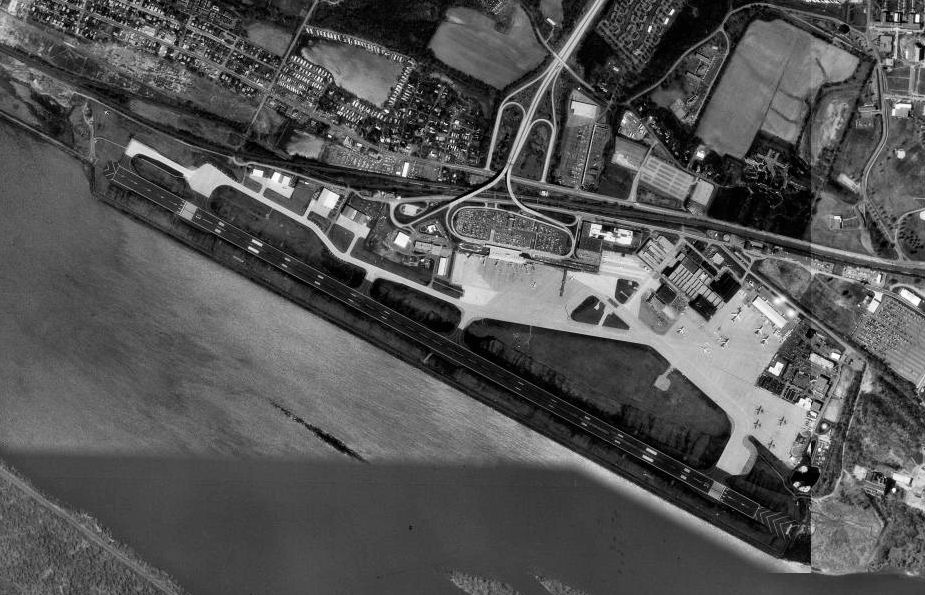 Aerial image of Harrisburg International Airport, Pennsylvania